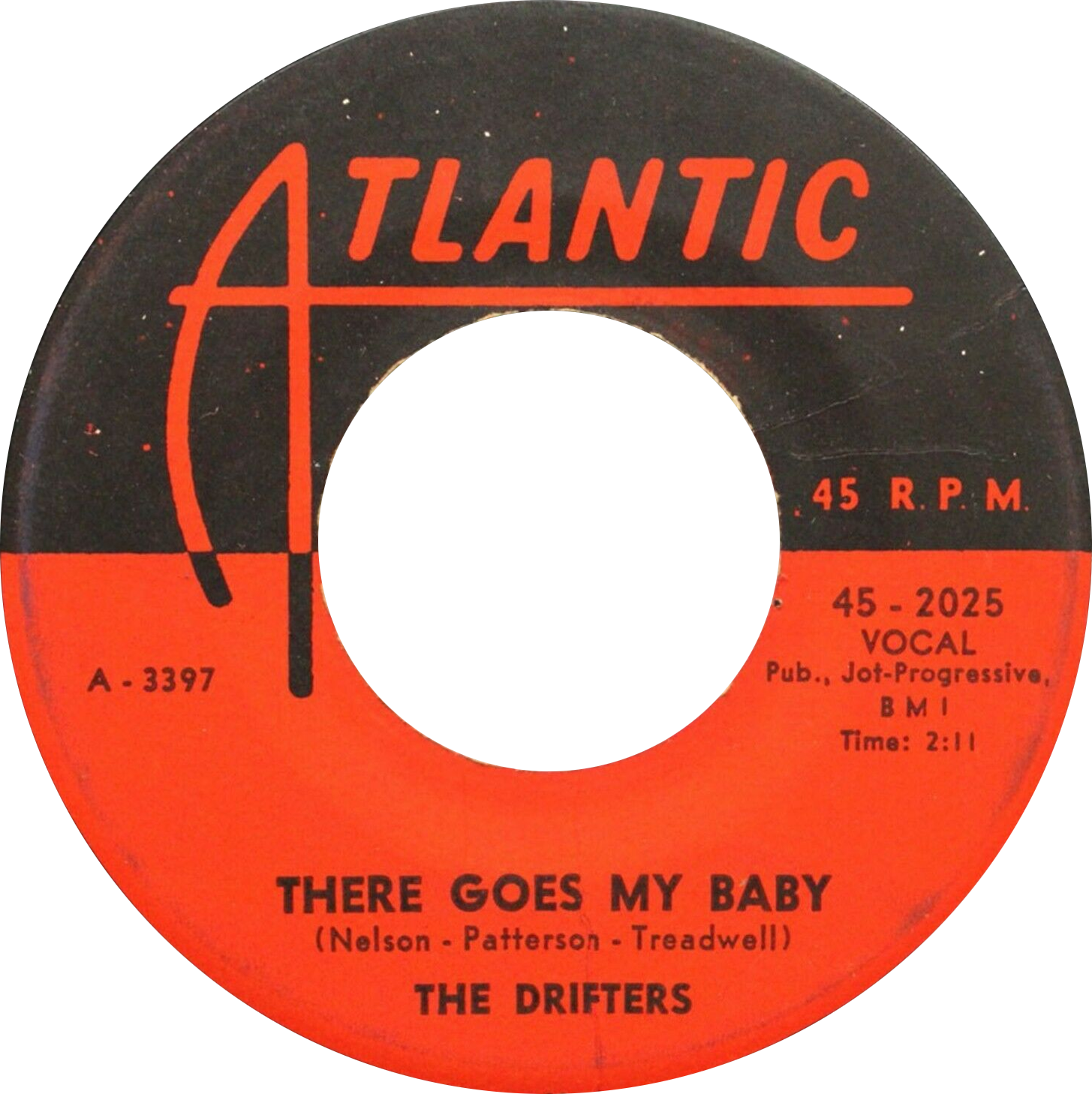 One of side-A label pressings of the US 7-inch (45 RPM) vinyl single "There Goes My Baby" by The Drifters. Written by Benjamin Nelson (alias "Ben E. King"), Lover Patterson, and George Treadwell. This pressing does not have the familiar Atlantic fan logo, while another pressing does.